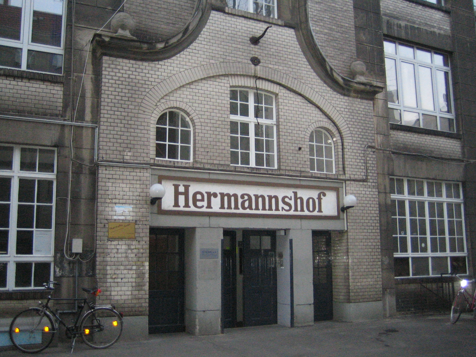 The Hermannshof, in Berlin-Neukölln near the Hermannstraße.